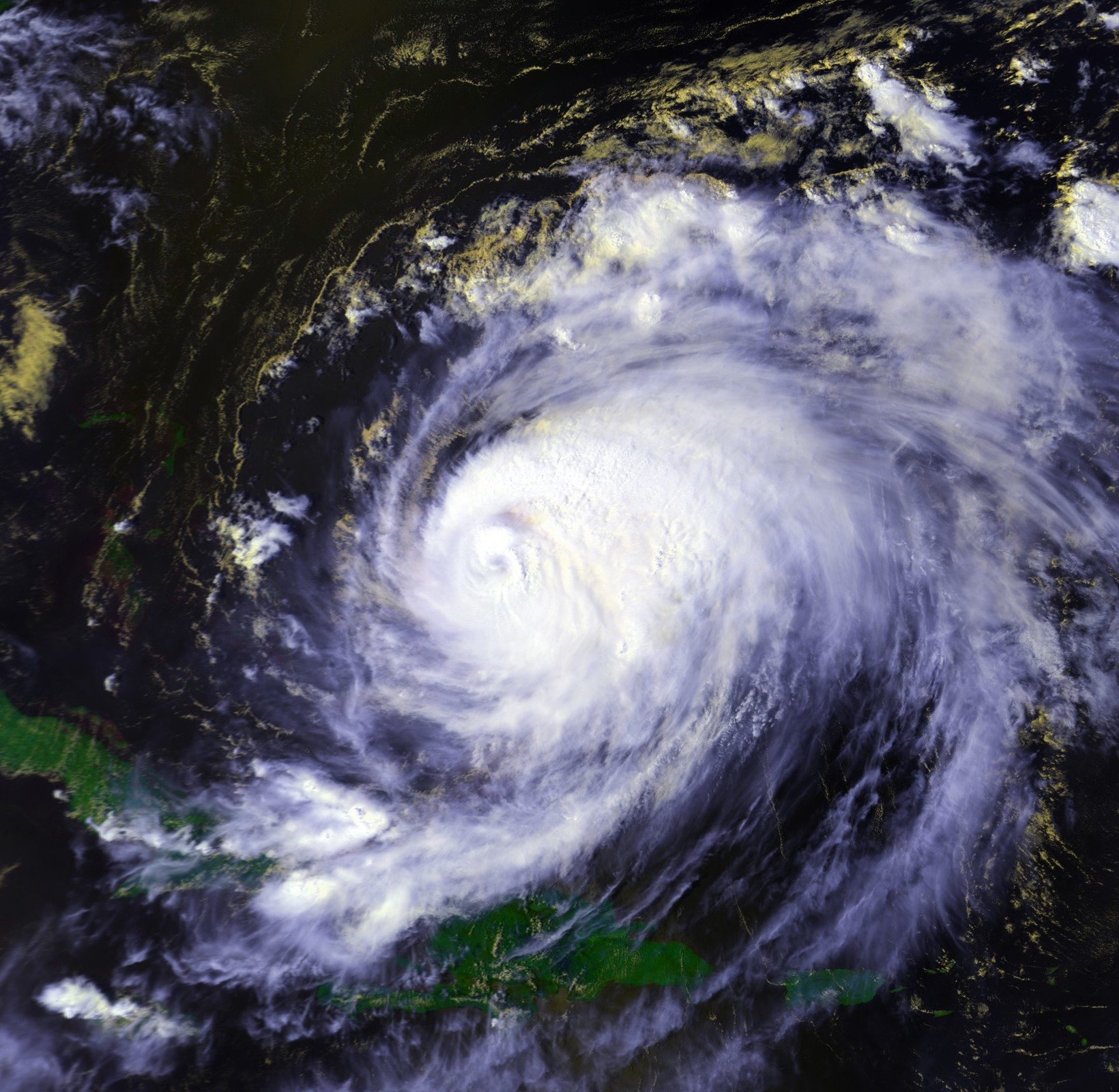 Hurricane Bonnie at peak intensity on August 1 at 1857 UTC. This image was produced from data from NOAA-15, provided by NOAA. Maximum sustained winds were 115 mph. The storm's minimum central pressure was 955 mb.